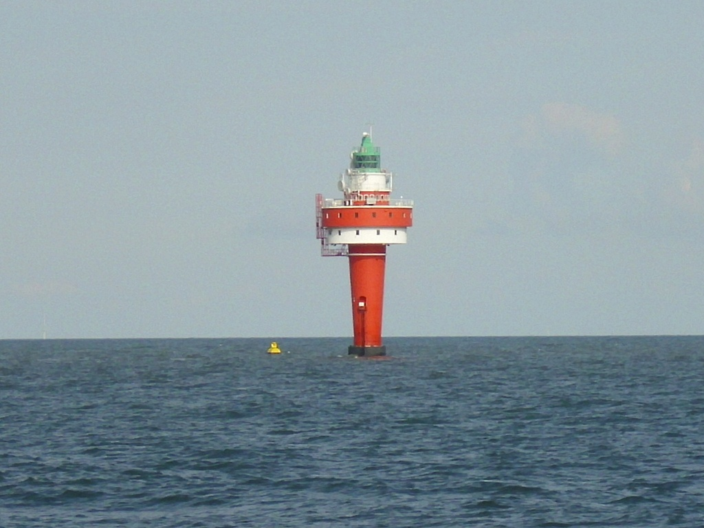 The lighthouse Alte Weser